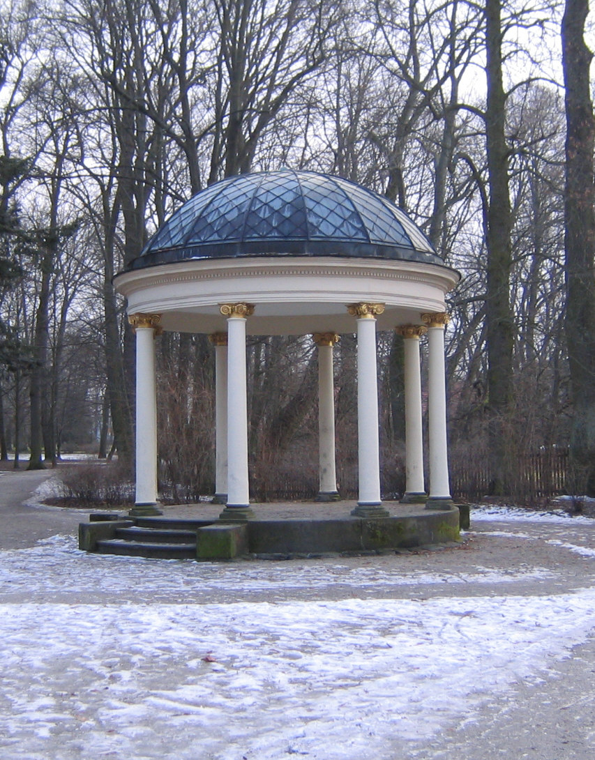 Monopteros from the year 1806 in the park (Hofgarten) near New Castle in Bayreuth